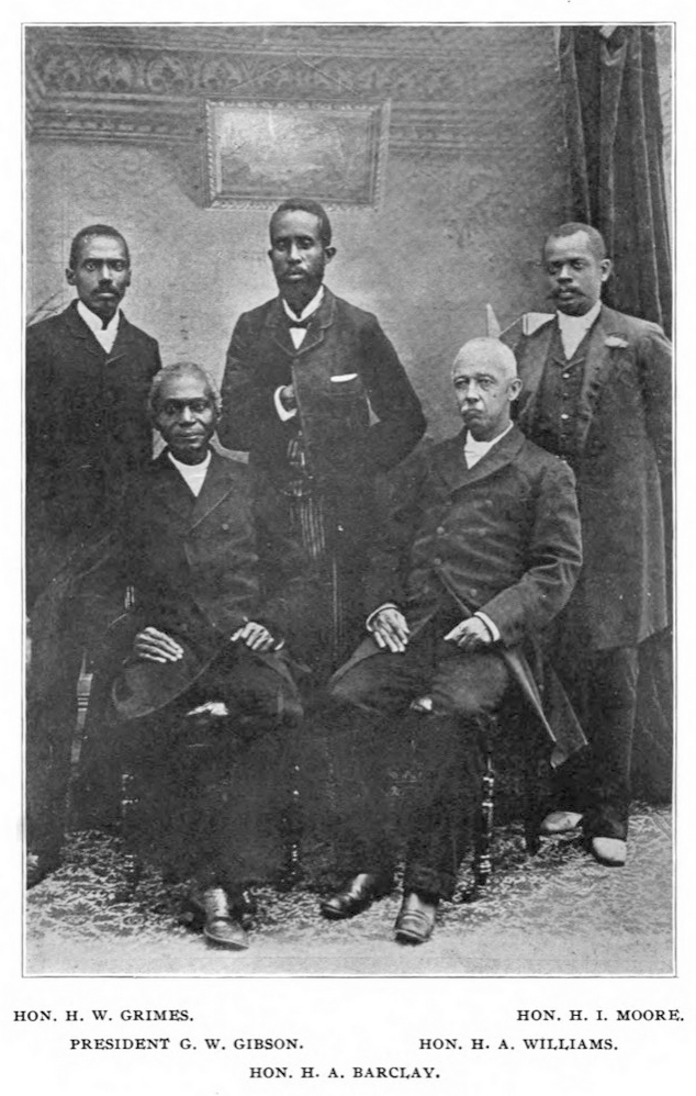 President Garritson Wilmot Gibson and Members of his Cabinet.